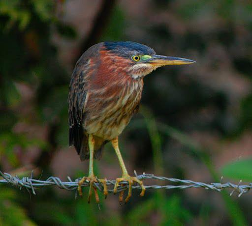 Green Heron in Puerto Rico's Northeast Ecological Corridor.